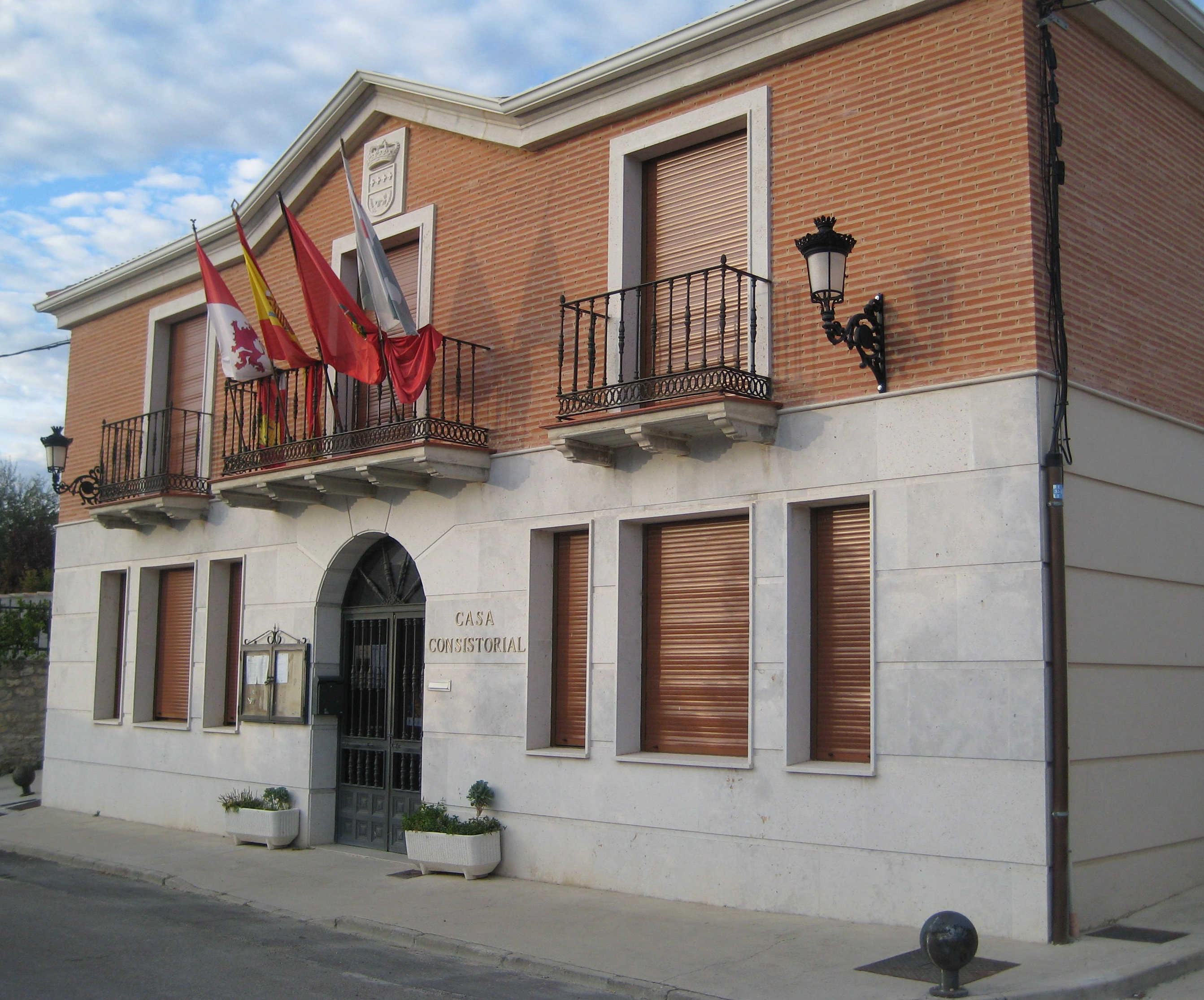 Local council hall in Quintanilla de Trigueros, Valladolid, Spain.